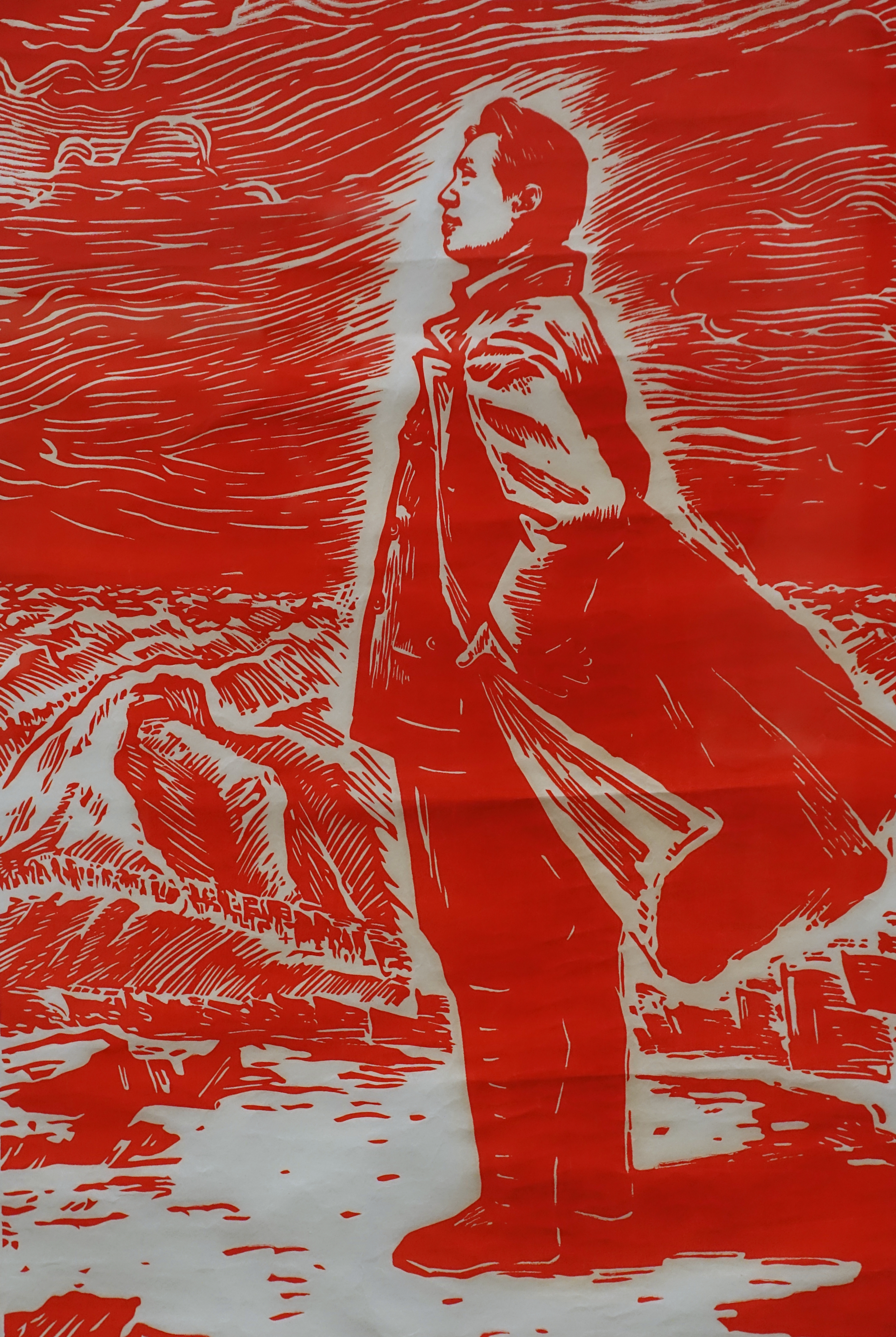 Exhibit in the Jordan Schnitzer Museum of Art, University of Oregon - Eugene, Oregon, USA.